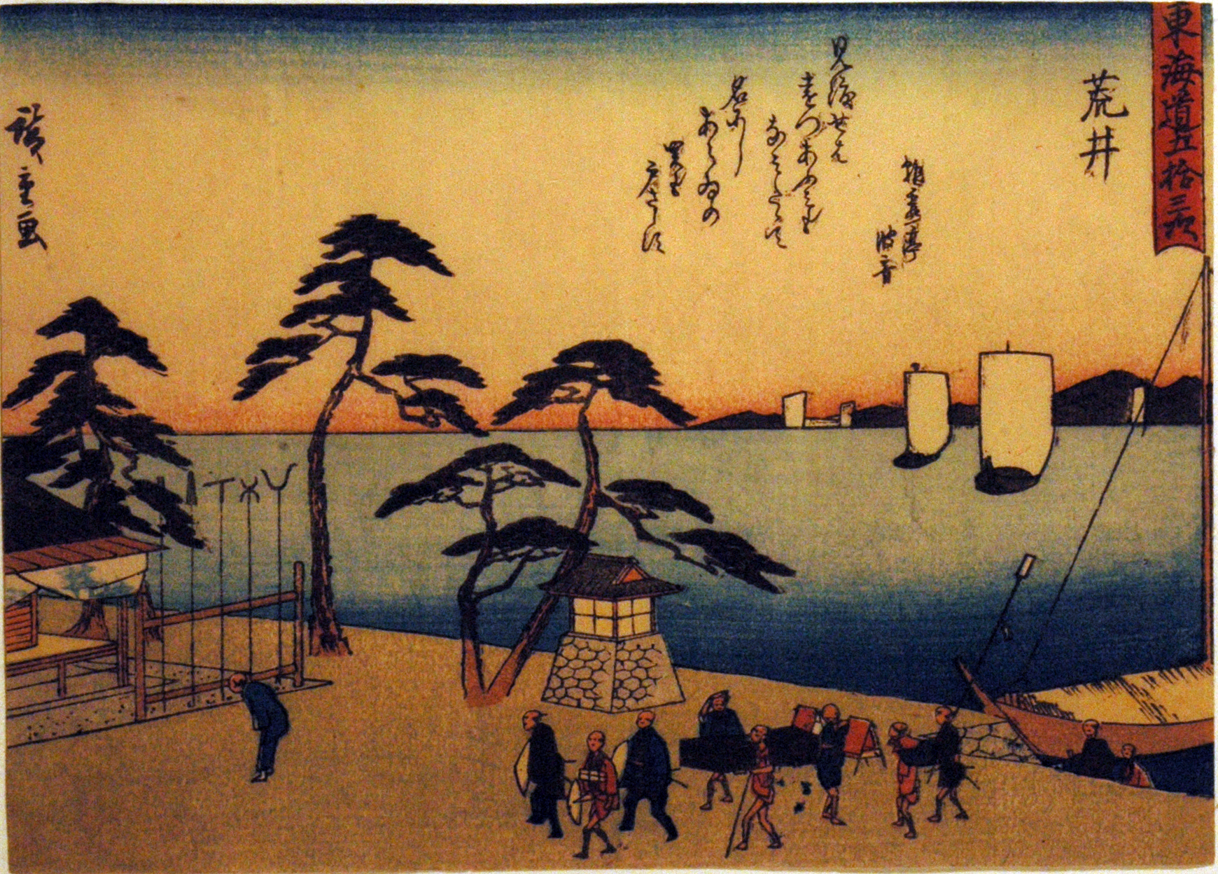 Accession Number: 1965.92.32 Display Artist: Utagawa Hiroshige Display Title: Arai Series Title: "Fifty-three Stations of the Tokaido Road, known as ""Kyoka Tokaido""" Suite Name: Tokaido gojusantsugi Creation Date: 1838-1840 Height: 5 11/16 in. Width: 8 in. Display Dimensions: 5 11/16 in. x 8 in. (14.45 cm x 20.32 cm) Publisher: Sanoya Kihei Credit Line: Gift of Mrs. Harold Rhody Witherbee Collection: The San Diego Museum of Art